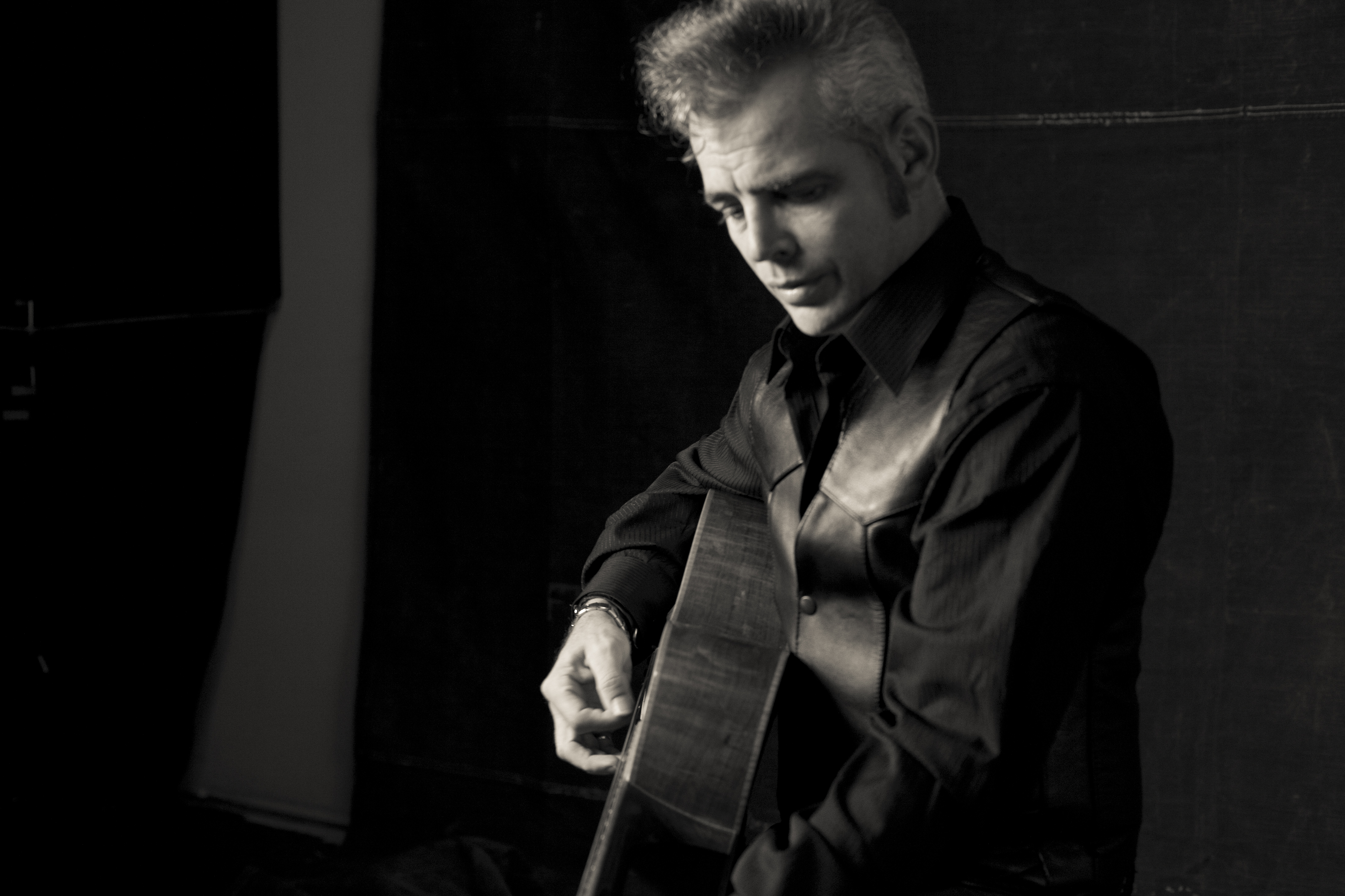 Dale Watson (singer) Lone Star, Texas Honky Tonk Music ,Ameripolitan